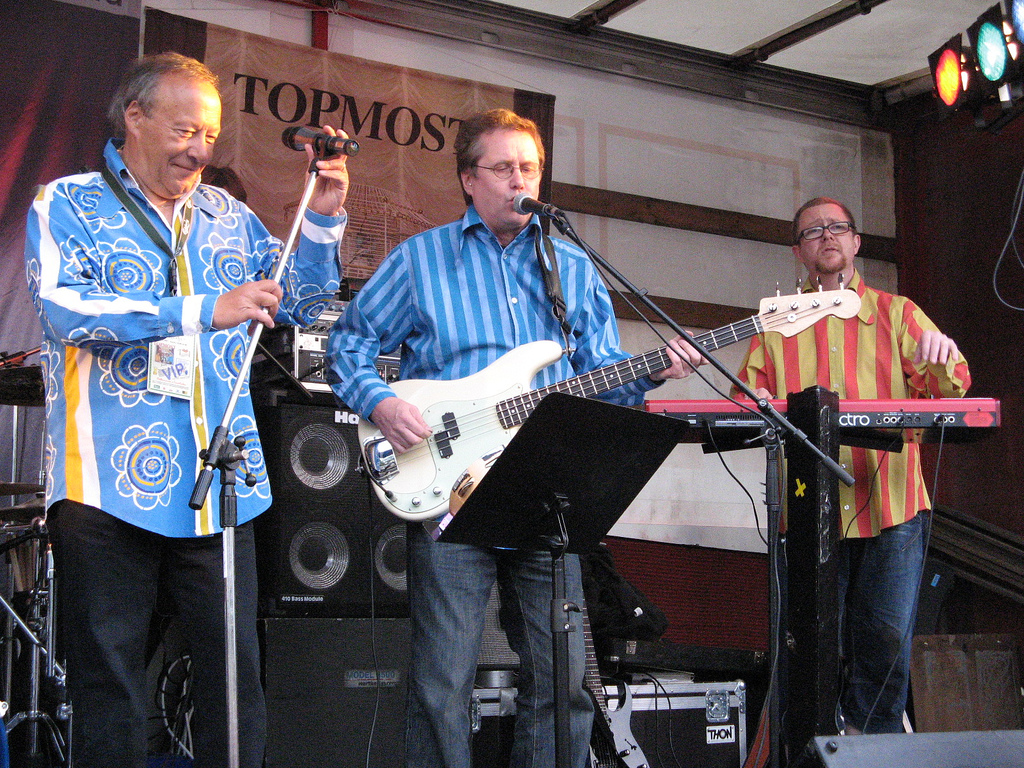 Vasilij "Gugi" Kokljuschkin , Heimo "Holle" Holopainen and Tommi Lindell (from left to right)